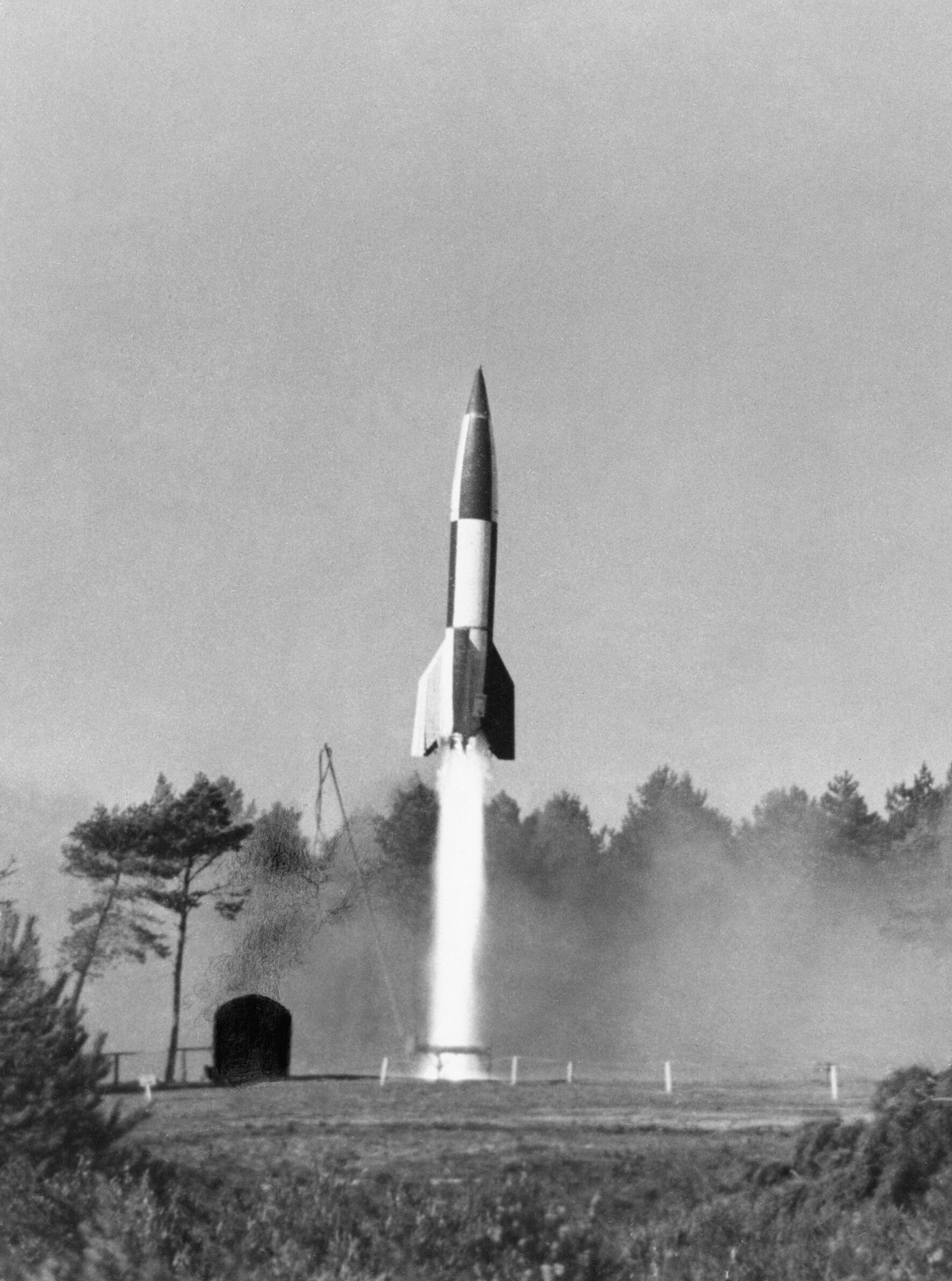 The V2 Rocket A German V2 rocket at the moment of launch during Allied tests in Germany, 10 October 1945.